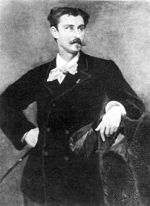 Robert de Wendel (9 May 1847 – 27 August 1903) was a French steelmaker of German origins, heir of a long line of Lorraine industrialists.